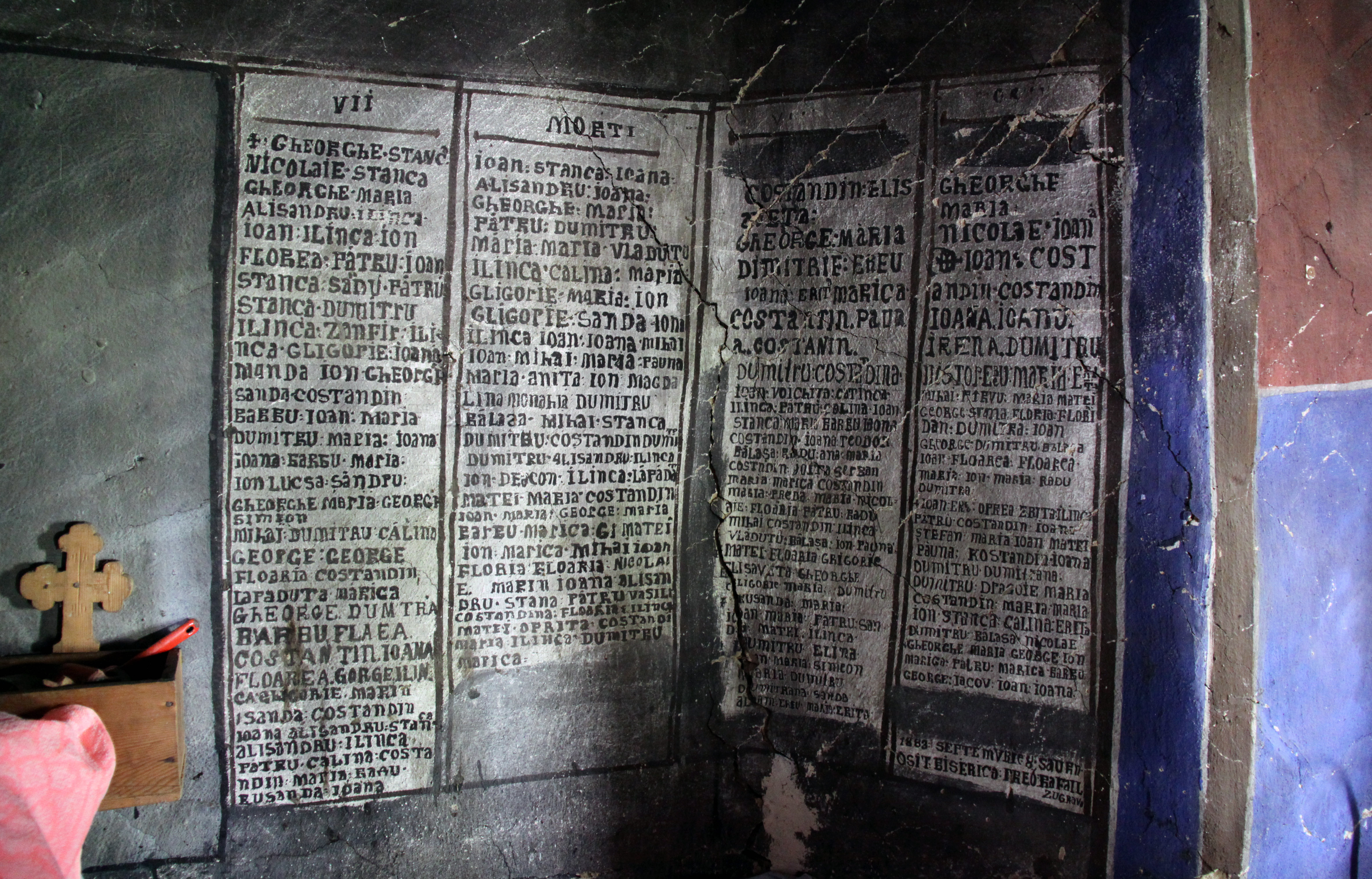 Floreşteni, Târgu Cărbuneşti, Gorj county: the wooden church, the inscription inside the chancel.